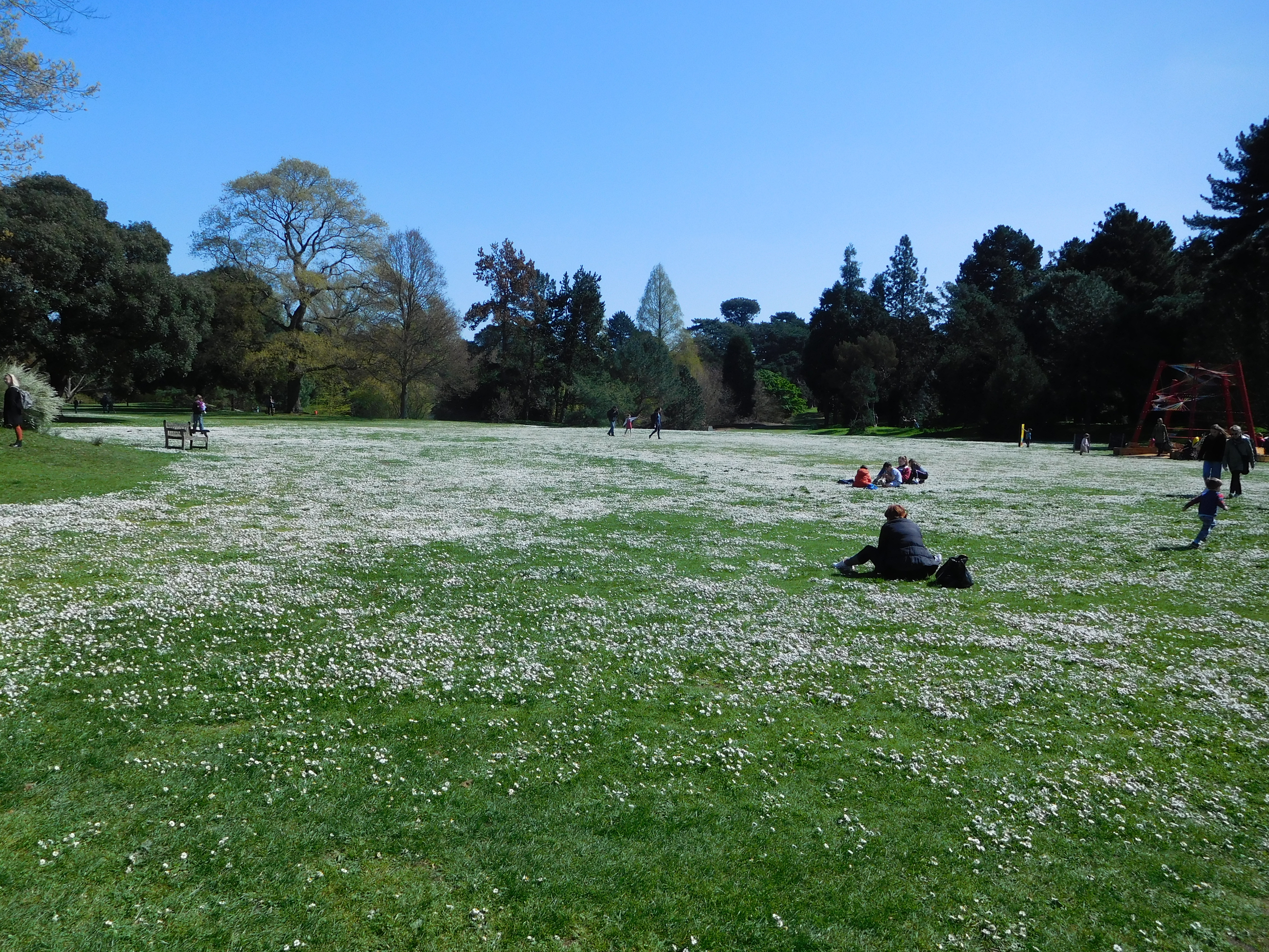 Well-trodden meadow at Kew gardens, the grass white with daisies, Bellis perennis. The species is low-growing and able to tolerate significant trampling, as well, here, as grazing by Canada geese from the adjacent lake.